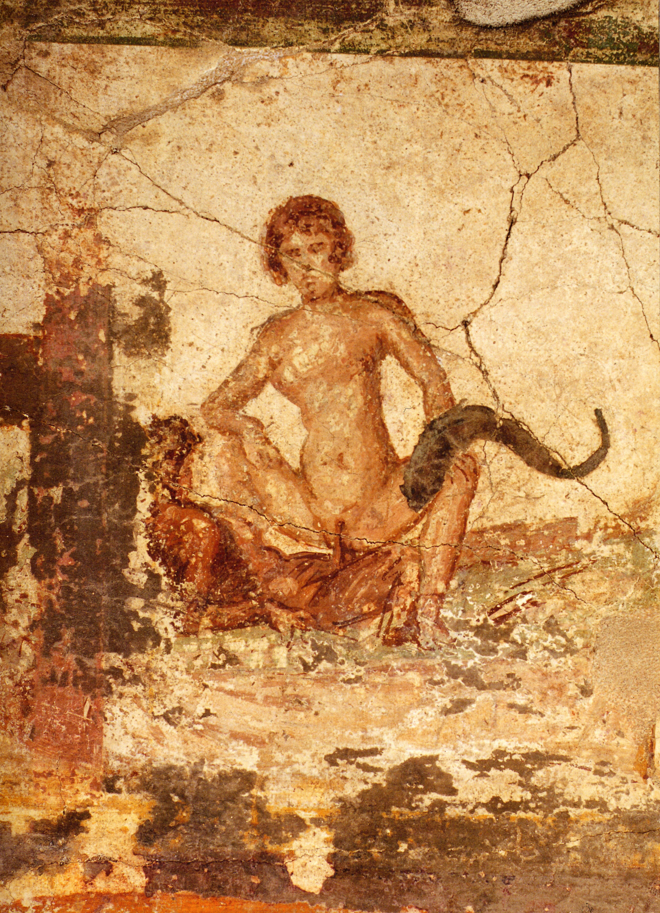 Scene I of the famous mural showing variants of sexual intercourse: Woman riding on the penis of the partner (mulier equitans). Roman fresco from the Terme Suburbane in Pompeii. The patches of dark green color are remains of the repainting of the wall.